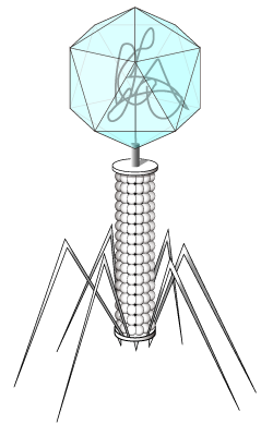 Bacteriophage. Images are from Togo picture gallery maintained by Database Center for Life Science (DBCLS).